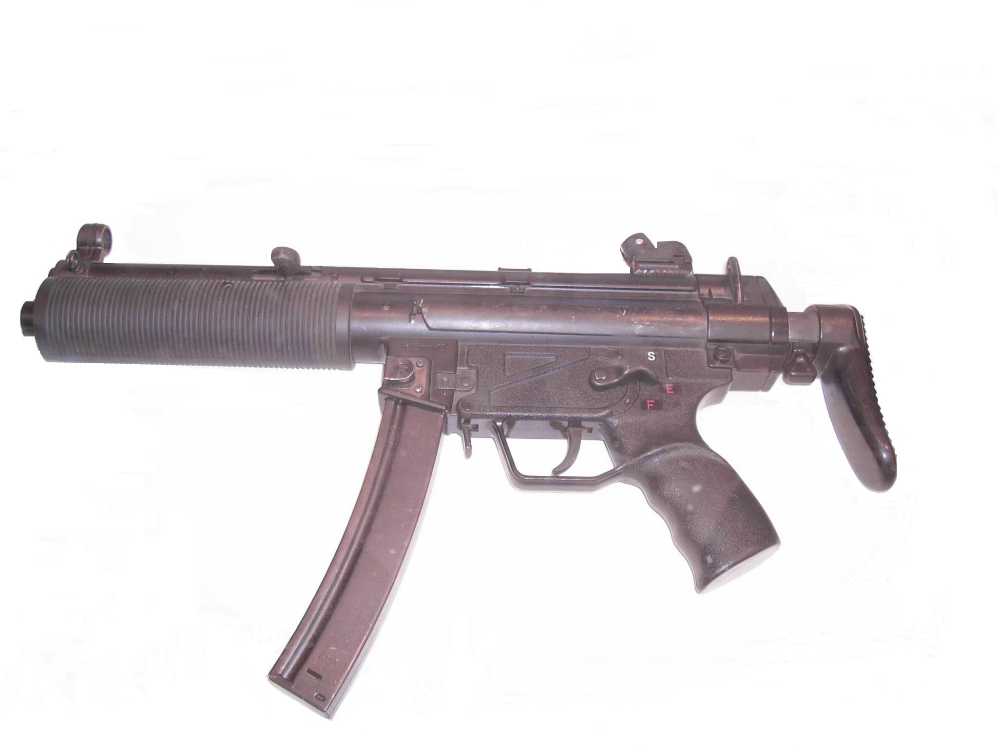 A submachine gun, presumably a Heckler and Koch MP5SD with an integral sound suppressor. If you know the specifc variation please add it here.